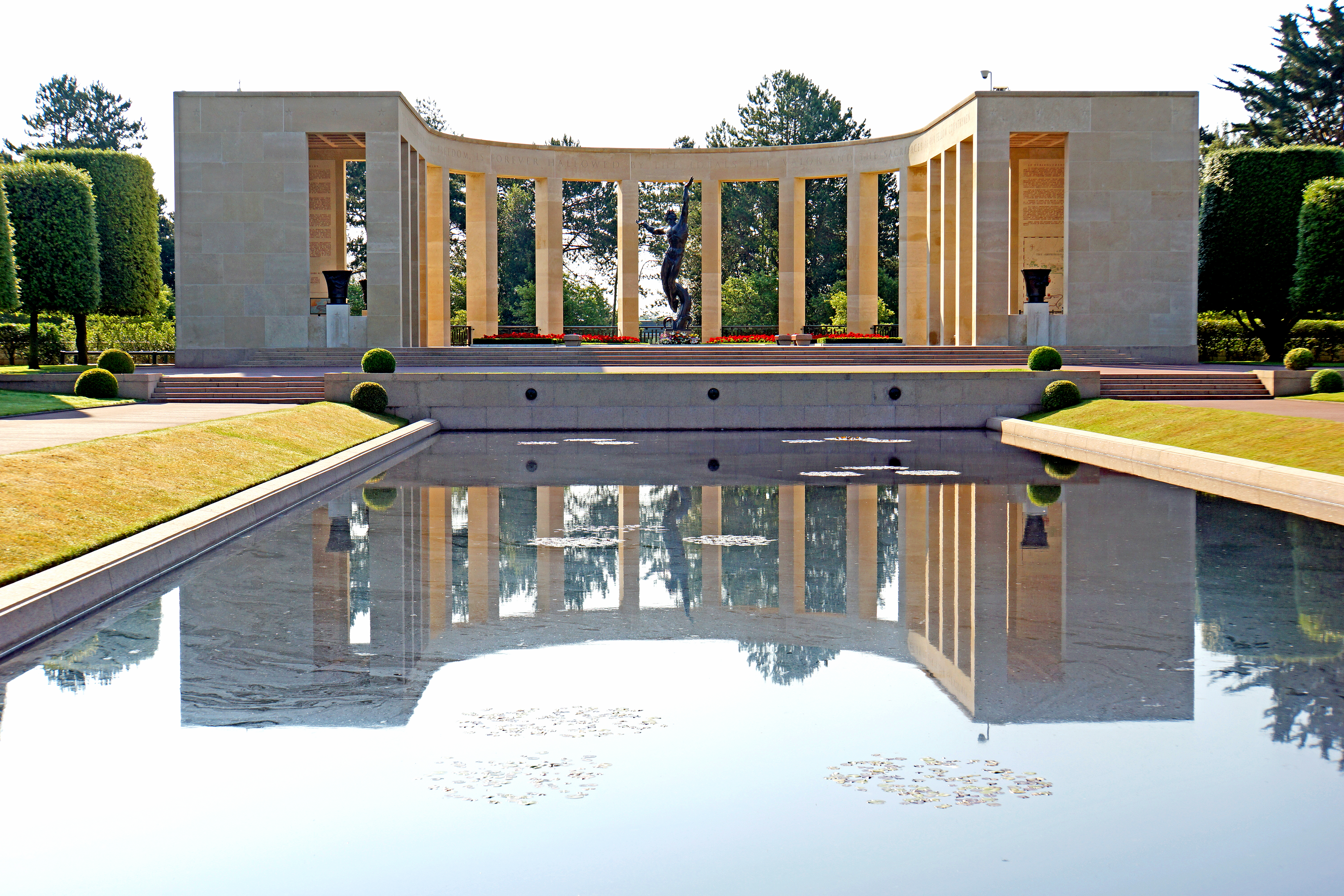 PLEASE, NO invitations or self promotions, THEY WILL BE DELETED. My photos are FREE to use, just give me credit and it would be nice if you let me know, thanks. The memorial consists of a semicircular colonnade with a loggia at each end containing large maps and narratives of the military operations; at the centre is the bronze statue, “Spirit of American Youth Rising from the Waves.”